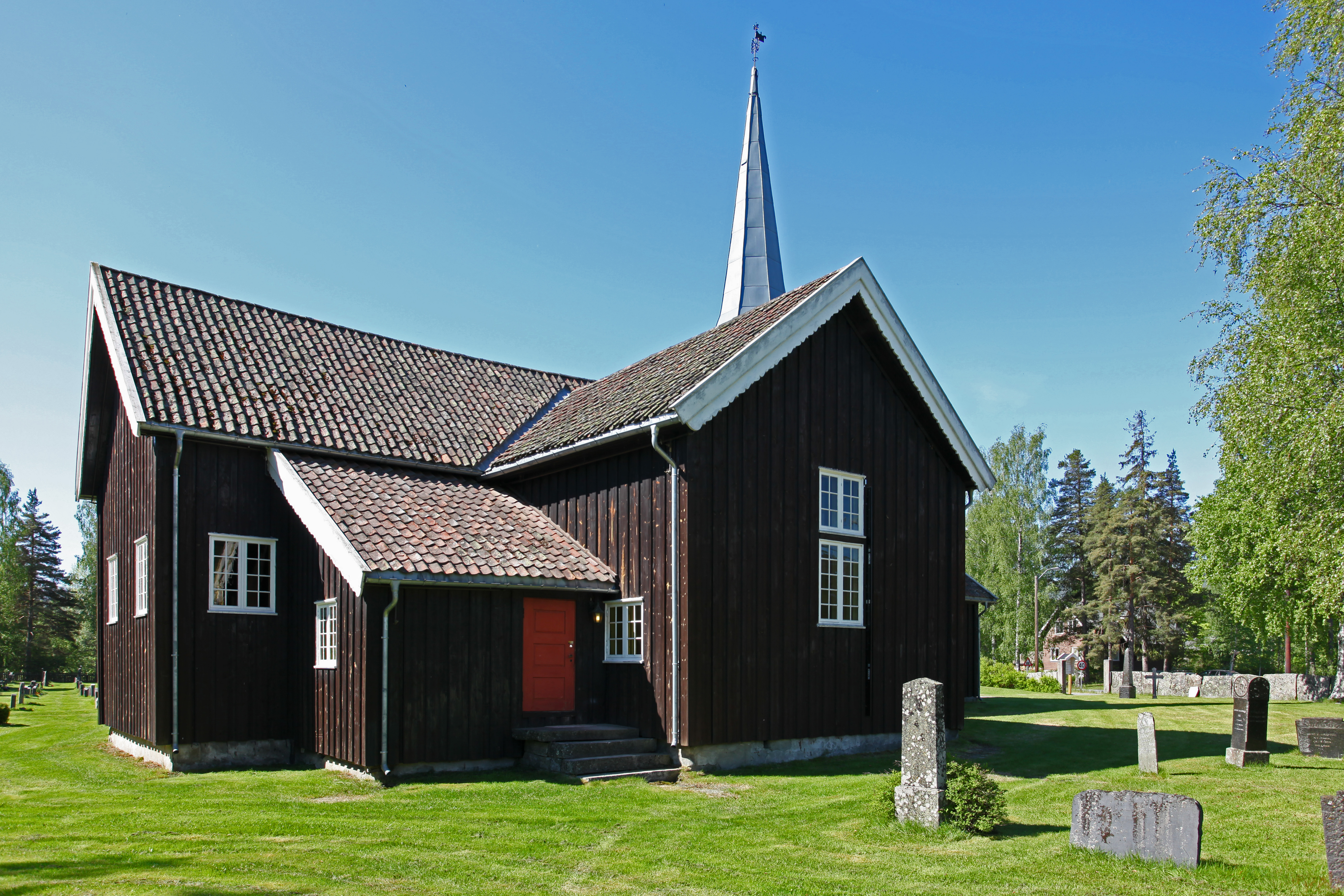 Picture of Flesberg stave church (Buskerud - Norway)